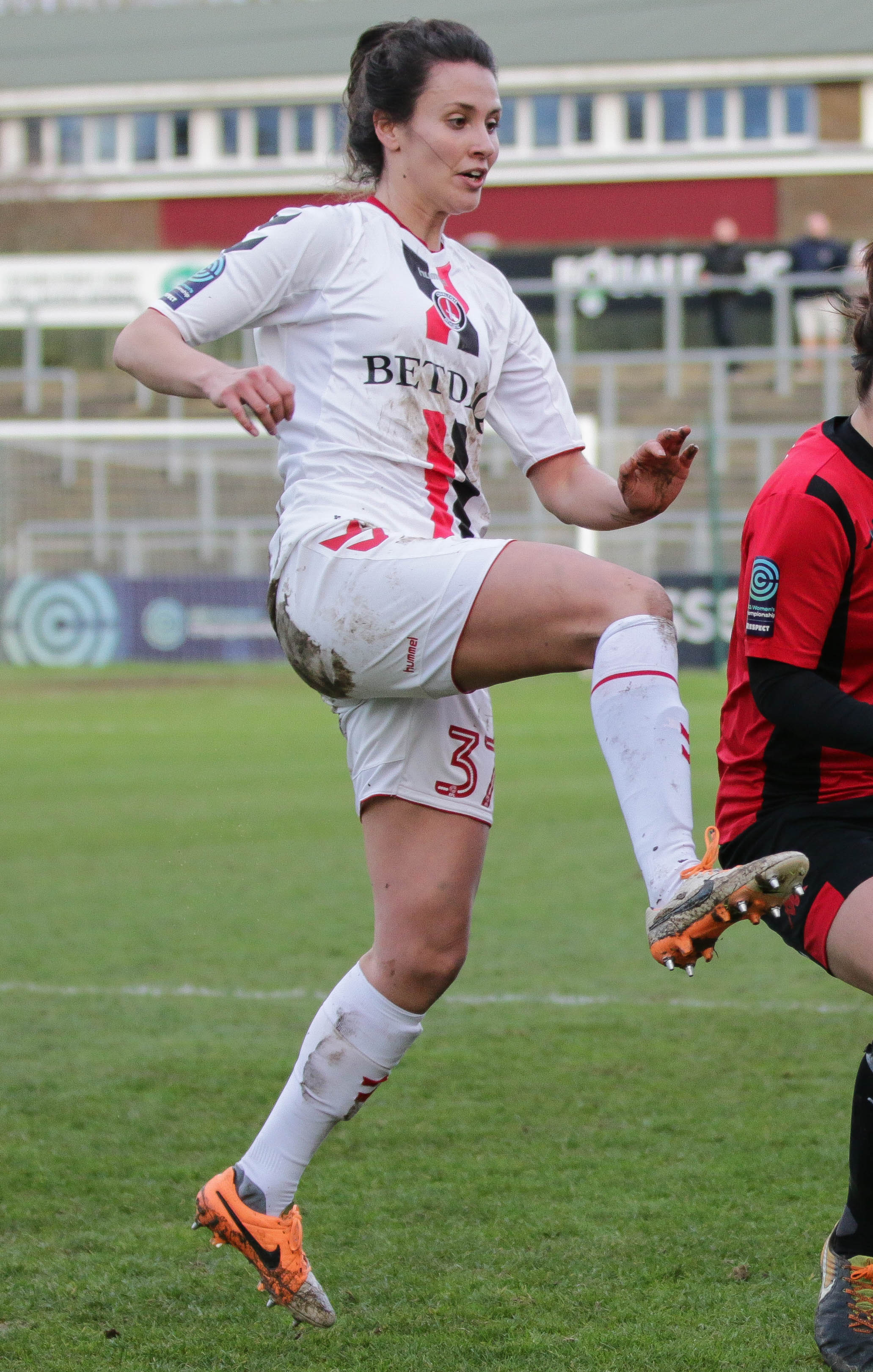 Charlton and Albania footballer Liz Ejupi